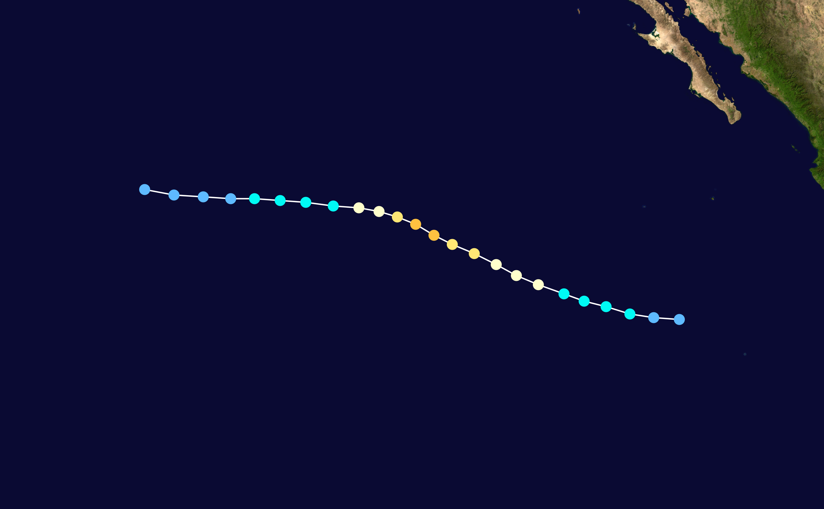 Hurricane Darby (2004) track. Uses the color scheme from the Saffir-Simpson Hurricane Scale.